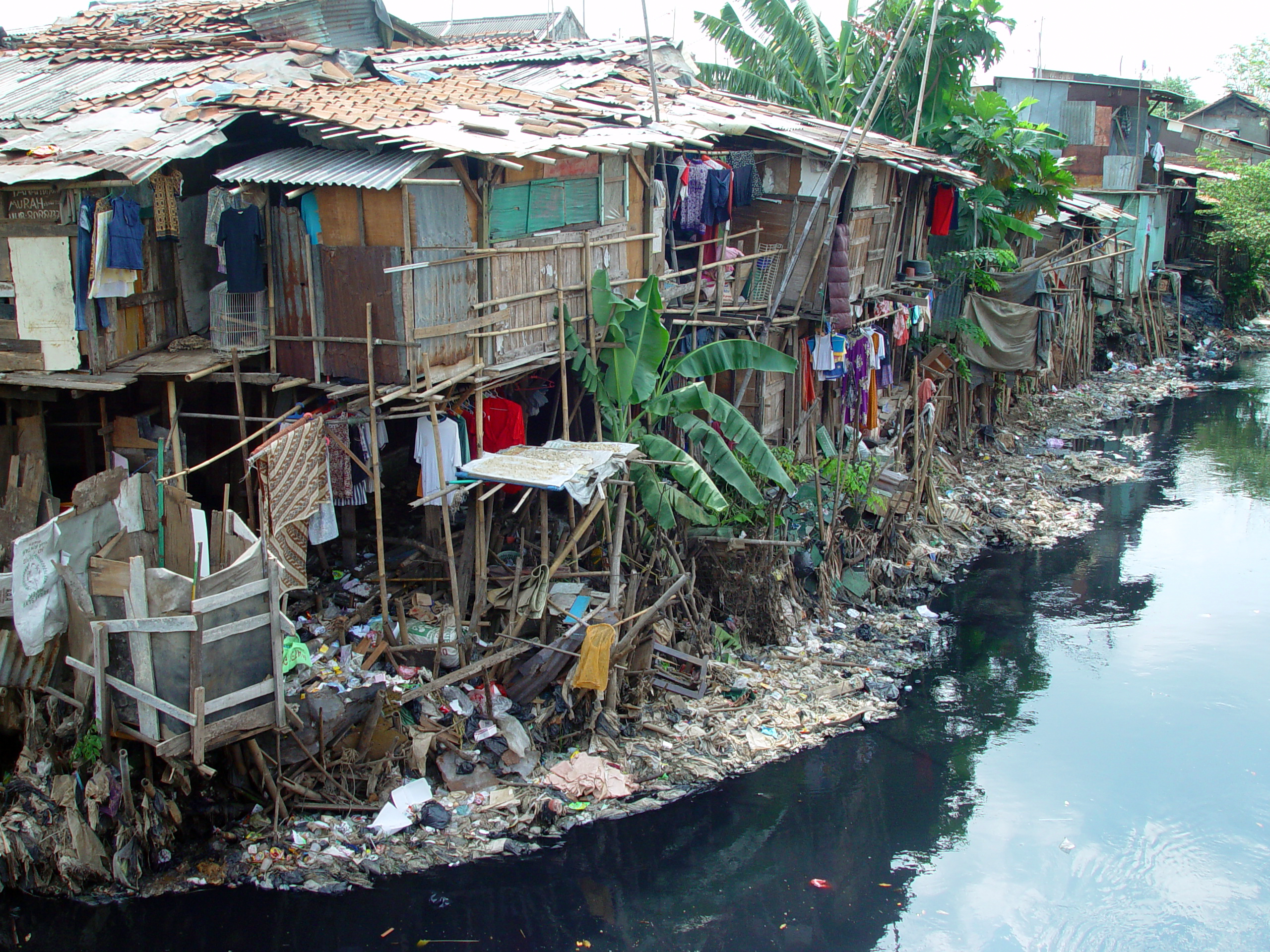 Slums built on swamp land near a garbage dump in East Cipinang, Jakarta Indonesia.